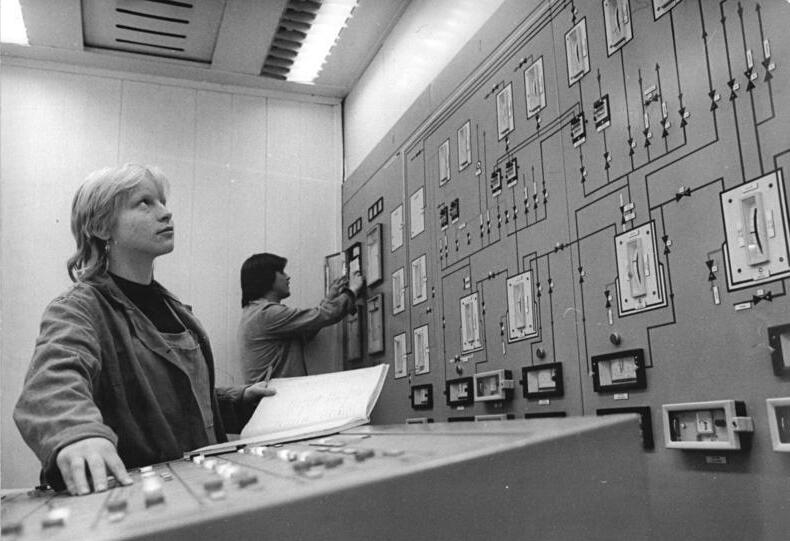 Production of whiteners at Chemiekombinat Bitterfeld (Chemical Combine Bitterfeld) - Fully automated production of chemical whiteners in Bitterfeld. The ratings are monitored and assessed in the control room by system driver Heidrun Donner. Through internal collaboration of researchers and chemical workers existing facilities have been modernized, with 30 percent less consumption and production is improved, achieving about one third higher performance.